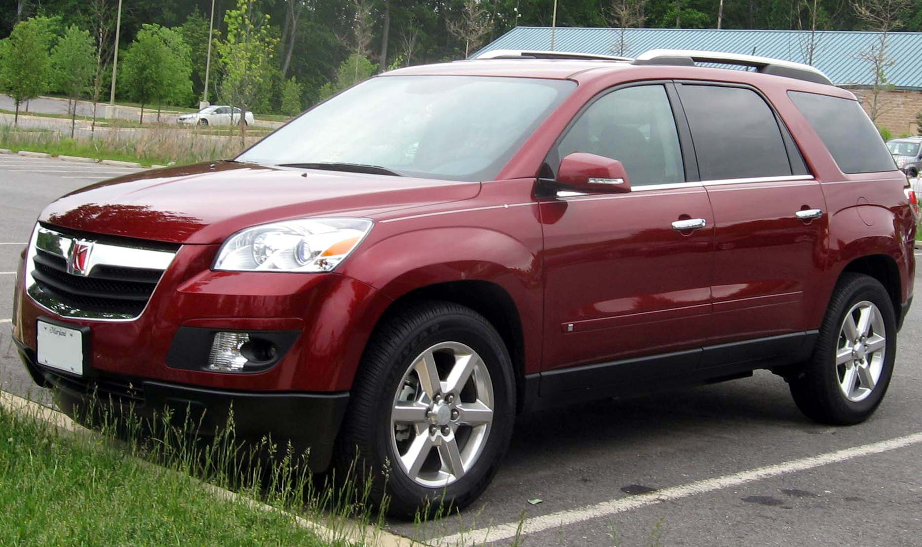 2007 Saturn Outlook photographed in USA.